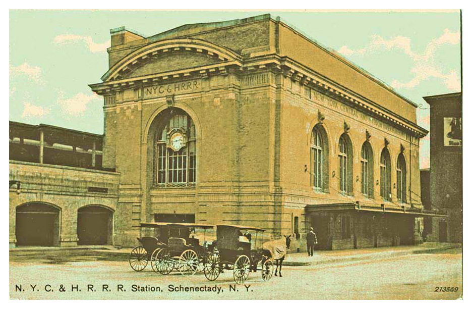 Early divided back postcard of Schenectady Union Station